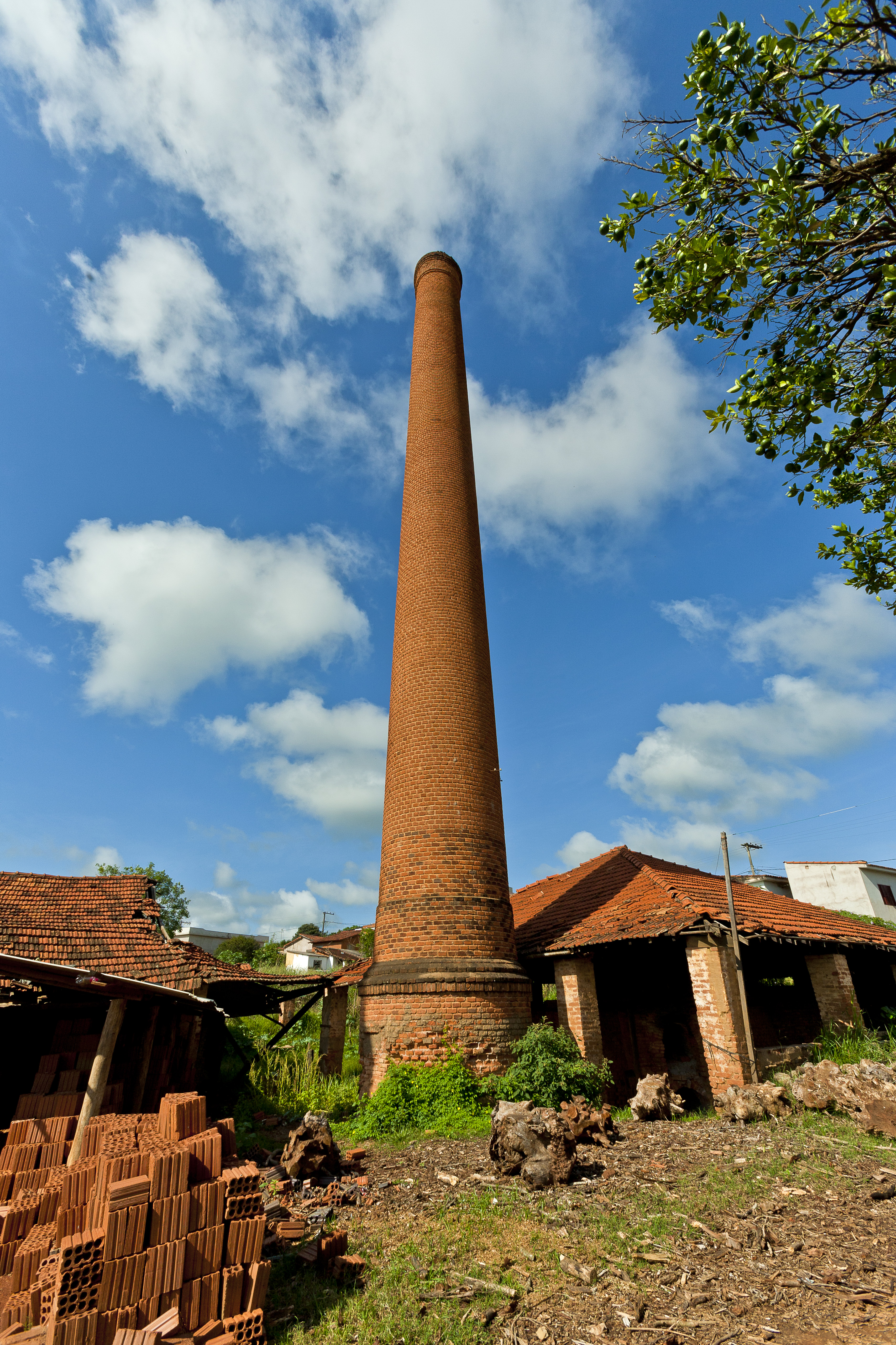 Chimney